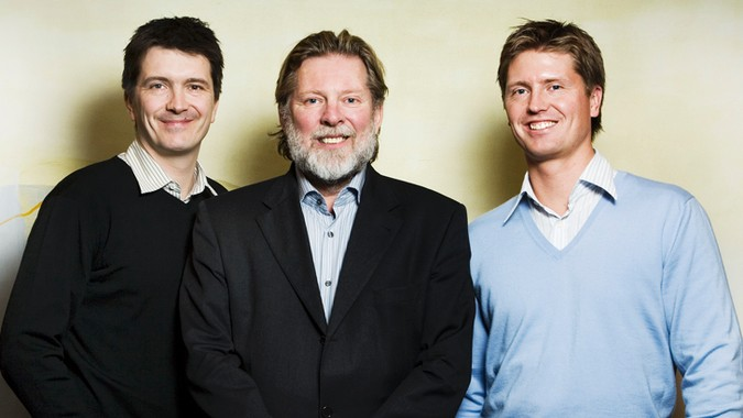 The Reitan family